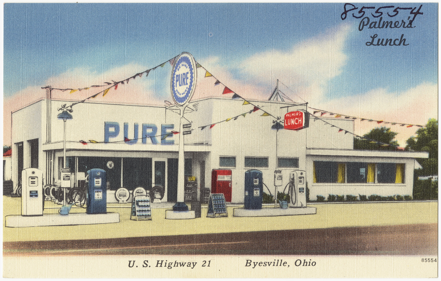 File name: 06_10_016561 Title: Palmer's Lunch, U.S. Highway 21, Byesville, Ohio Created/Published: Pub. by Howard Studio, Byesville, Ohio Date issued: 1930 - 1945 (approximate) Physical description: 1 print (postcard) : linen texture, color ; 3 1/2 x 5 1/2 in. Genre: Postcards Subjects: Automobile service stations; Restaurants Notes: Collection: The Tichnor Brothers Collection Location: Boston Public Library, Print Department Rights: No known restrictions